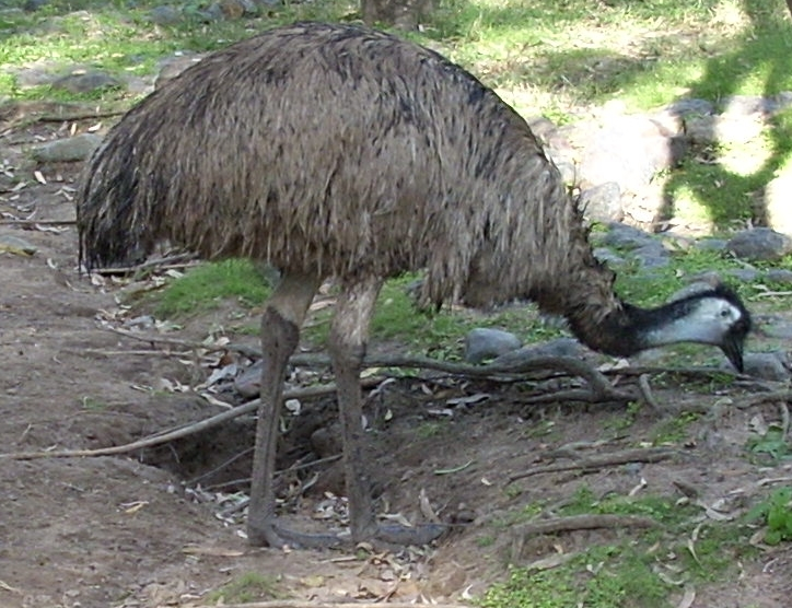 Image of an Australian Emu taken at the Rockhampton Botanical Gardens in Rockhampton, Central Queensland.